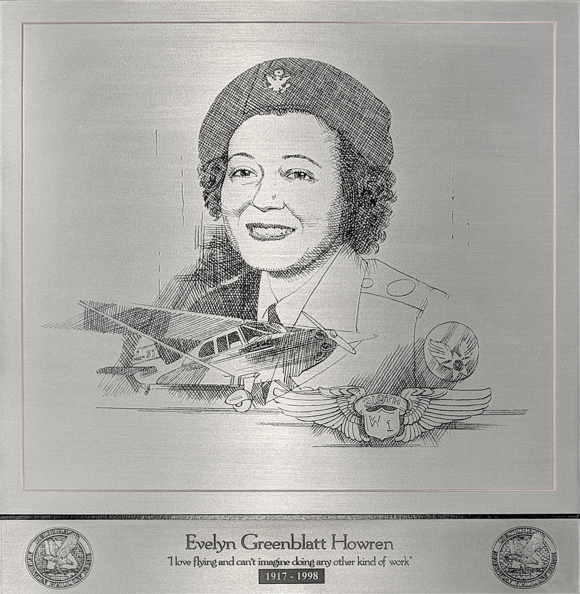 Evelyn Greenblatt Howren (1917 - 1998)